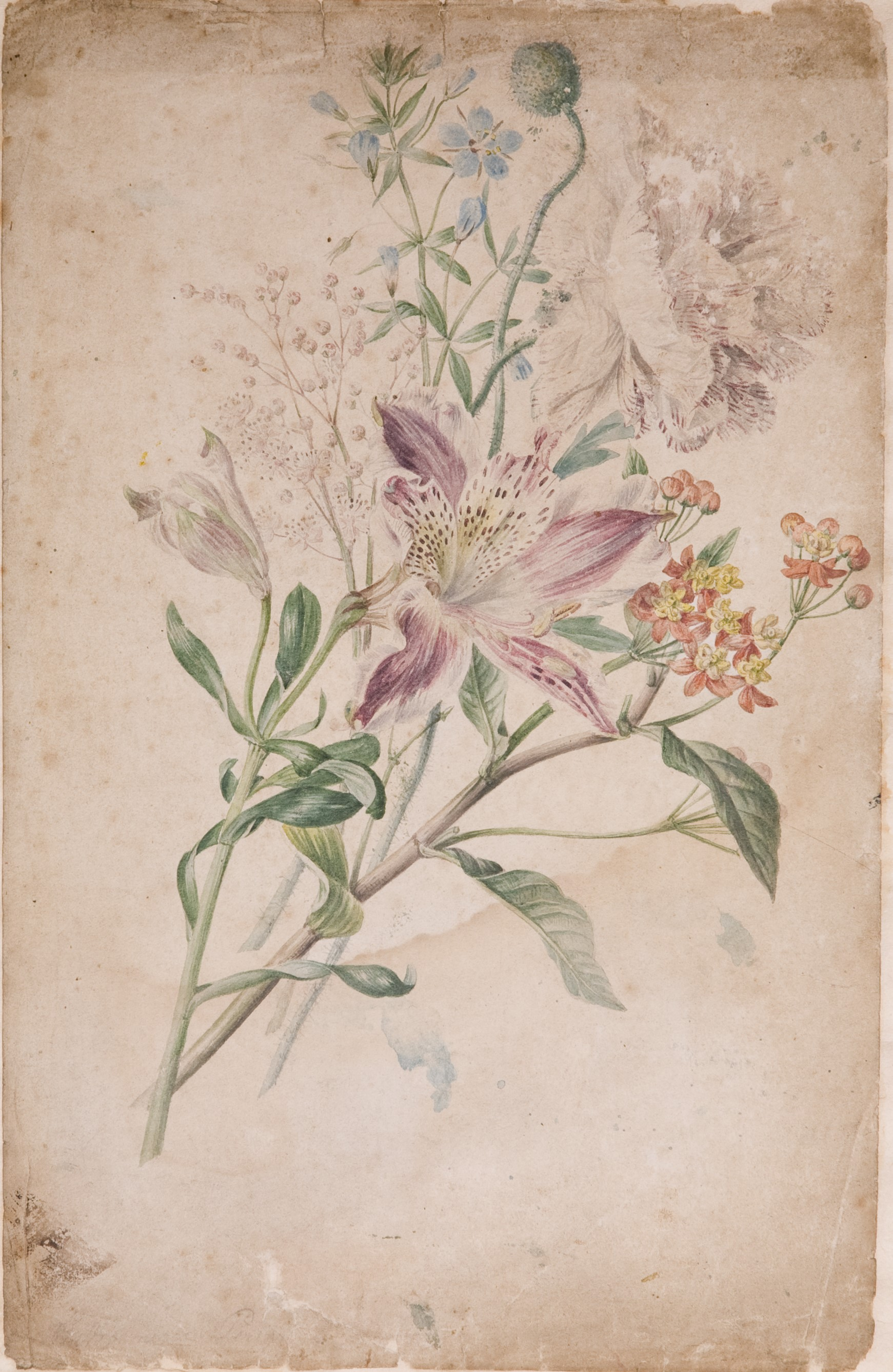 Study in pencil and watercolor of the Papaver somniferum and specimens of the Alstroemeria, Gypsophila and an unidentified plant by Jan Gaykema Jacobsz. (1798-1875), neither with monogram nor signed